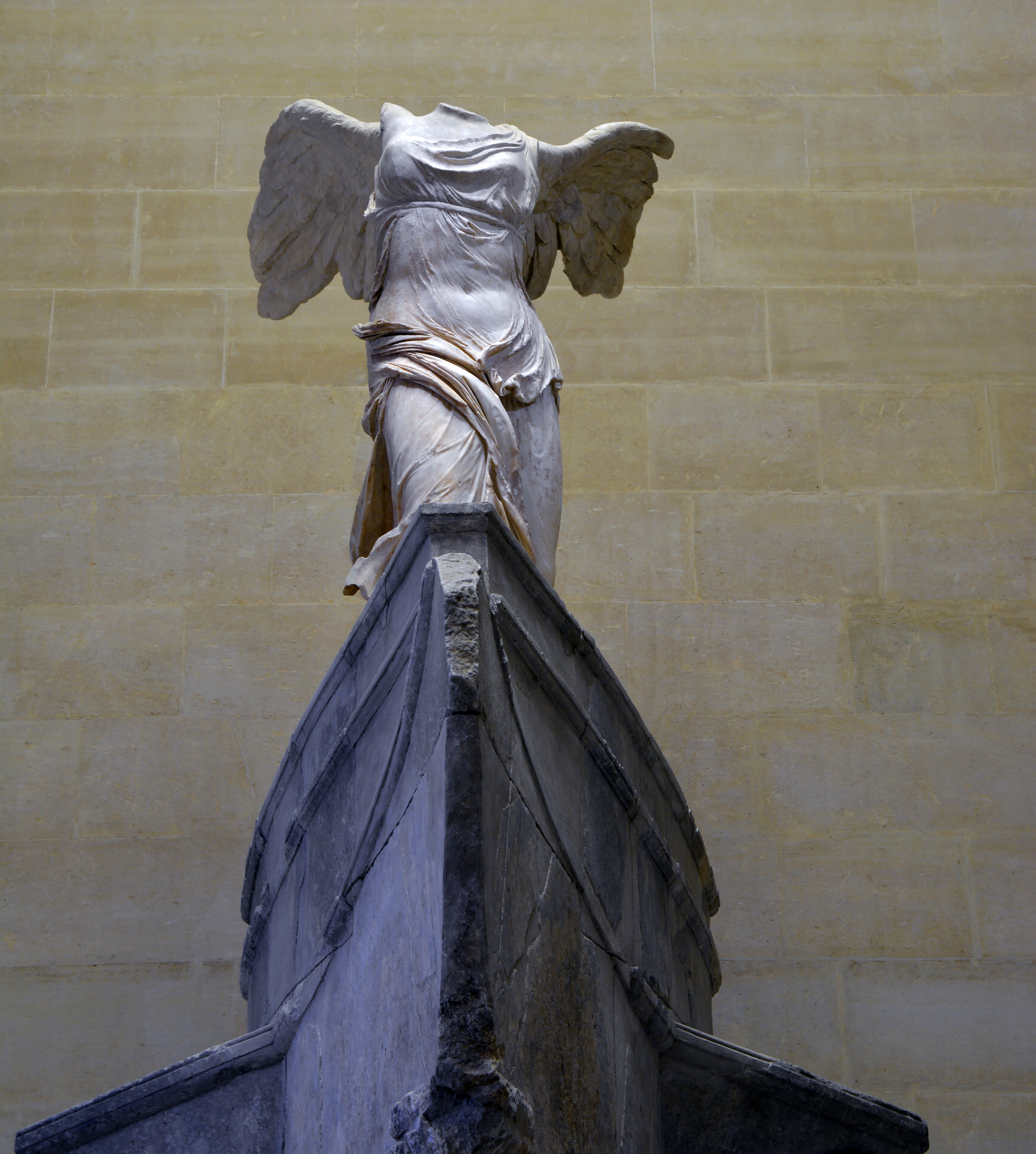 Front view of the Nike of Samothrace